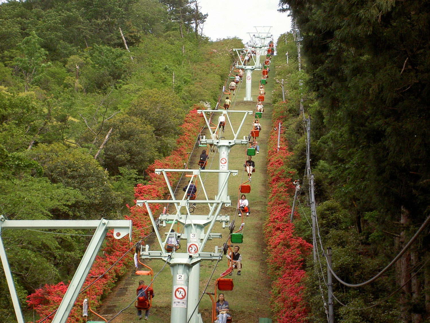 Cable cars in Mount Komuro, Shizuoka Prefecture, Japan.